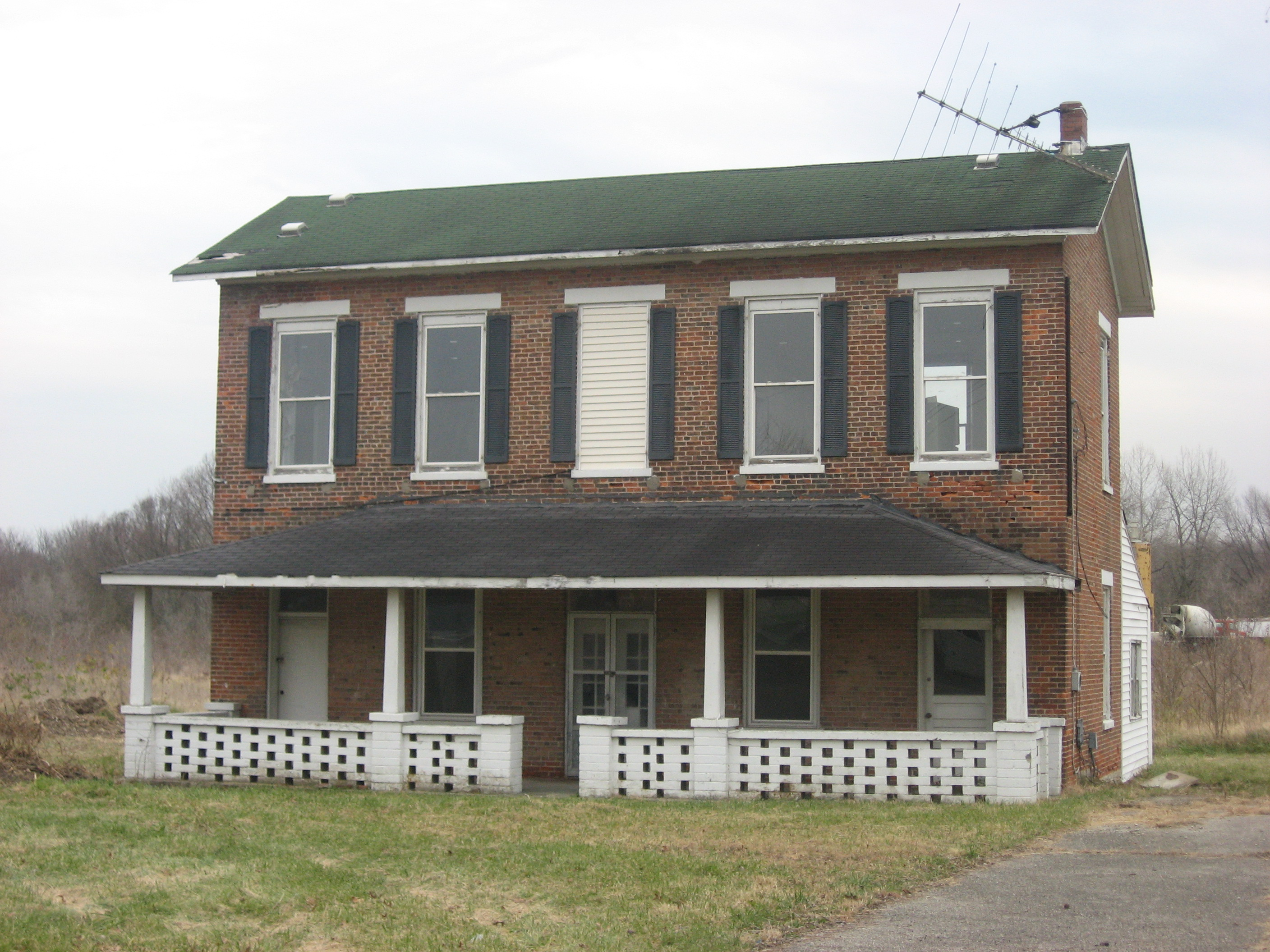 Front and western side of the Augspurger Mill Office and Post Office, located at 1701 Woodsdale Road in Woodsdale, Ohio, United States. Built in 1868, it is listed on the National Register of Historic Places.